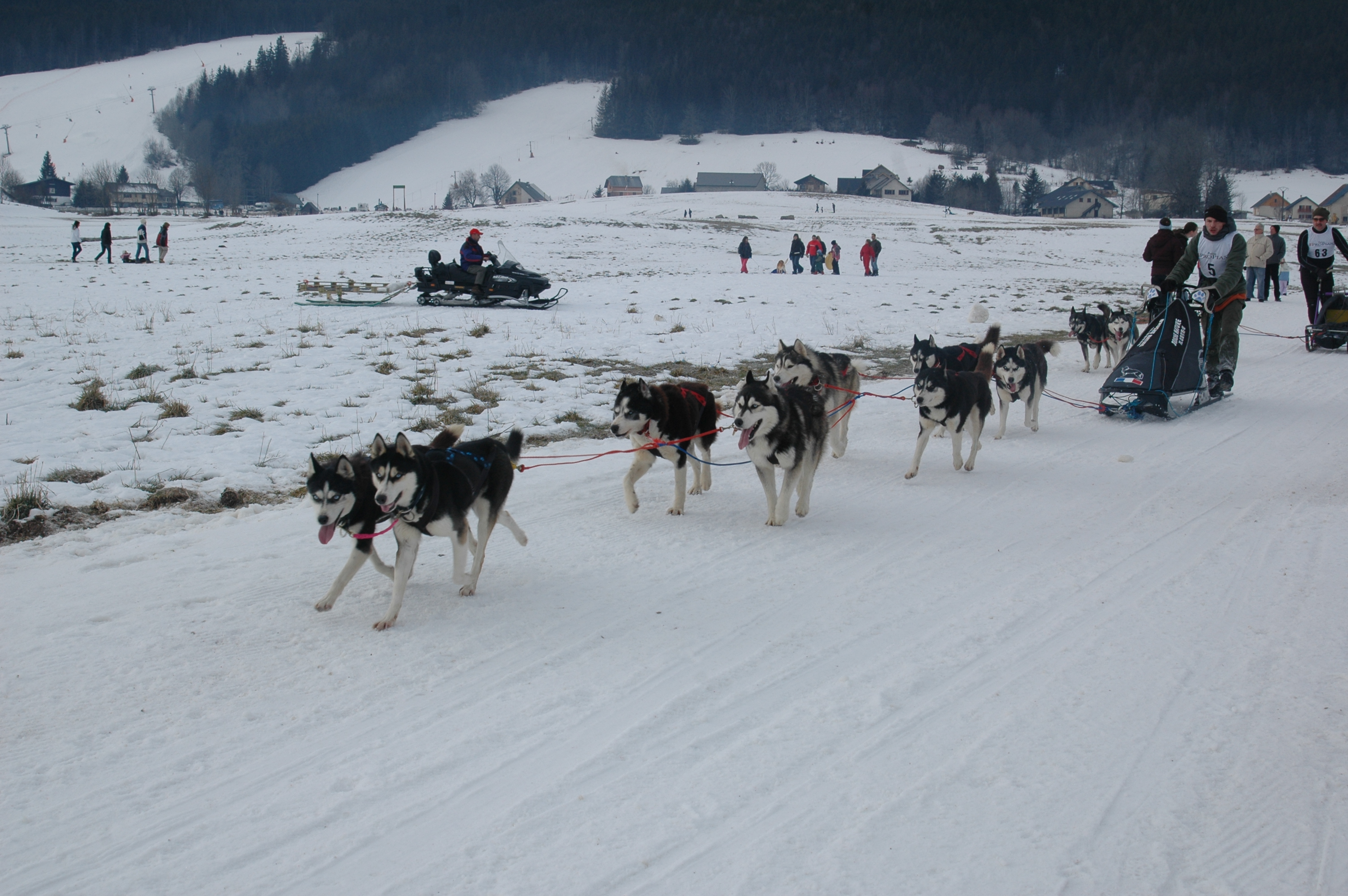 Attelage Magic Wolf - Ch. Fr en LT2 2008